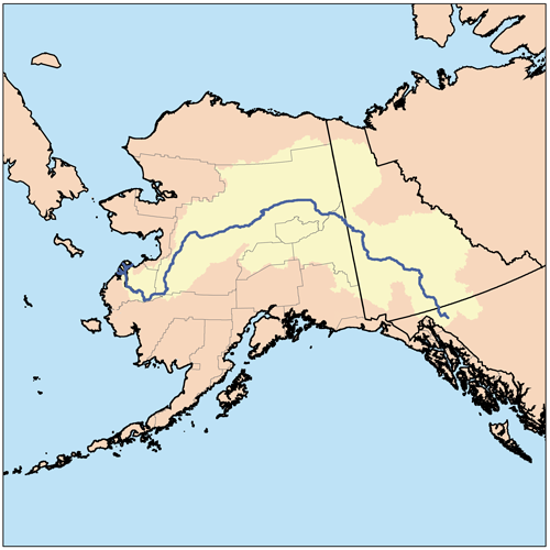 This is a map of the Yukon River Watershed. I, Karl Musser, created it based on USGS data.